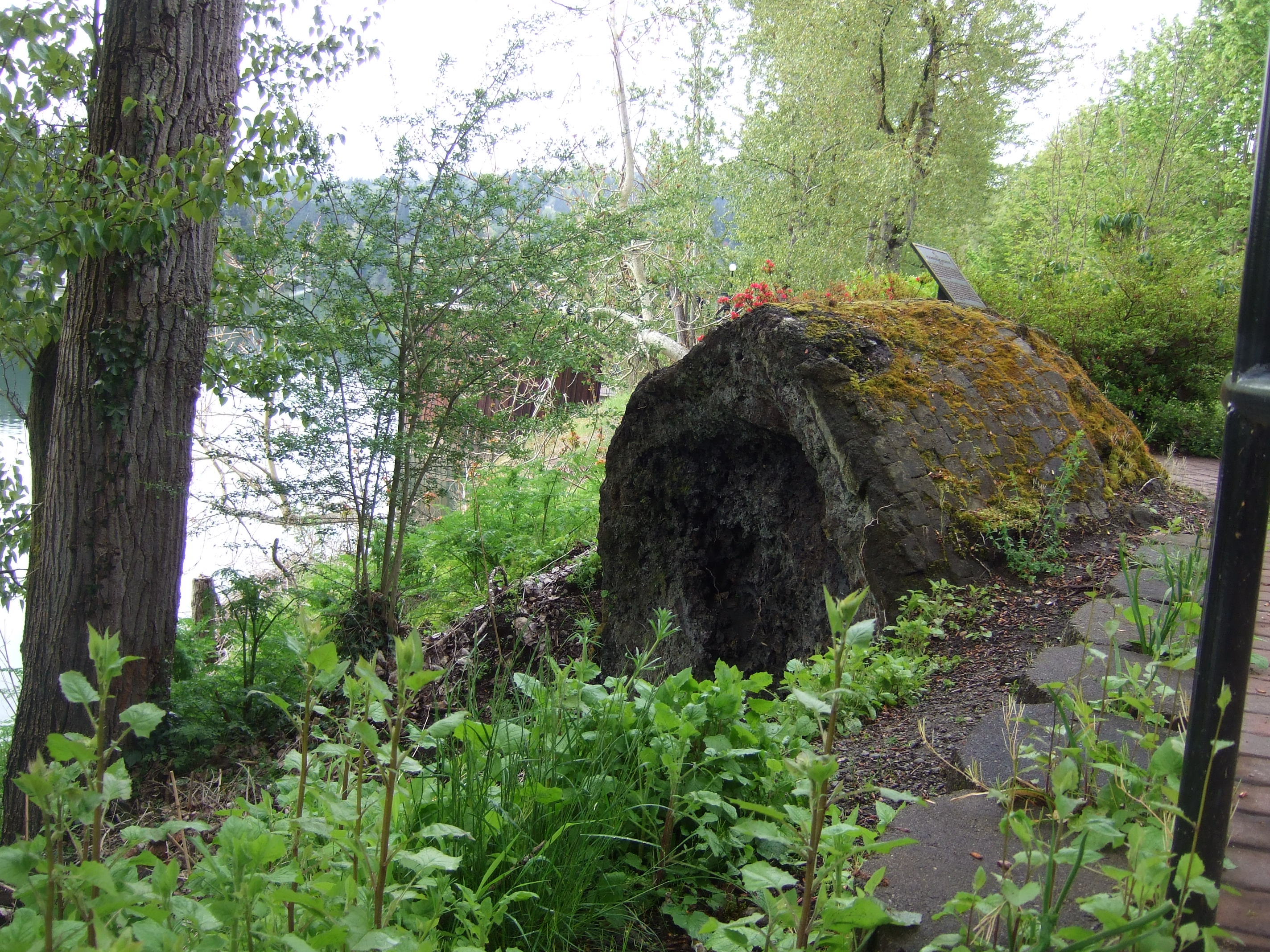 Crucible from the second furnace of the Oregon Iron and Steel Company Furnace in Roehr Park, Lake Oswego, Oregon, May 2009